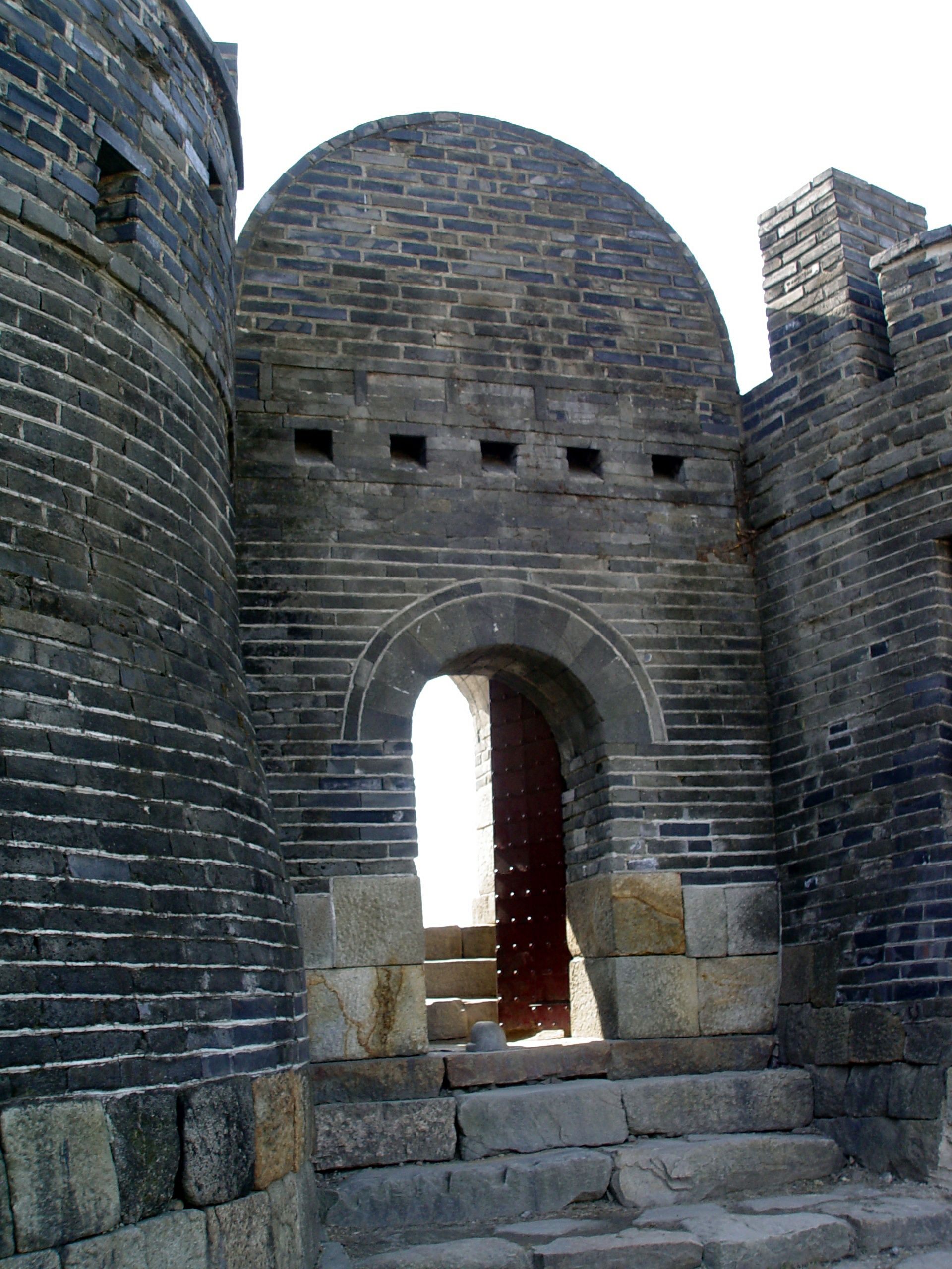 Third North Secret Gate, Hwaseong Fortress, Suwon, South Korea - Outside face